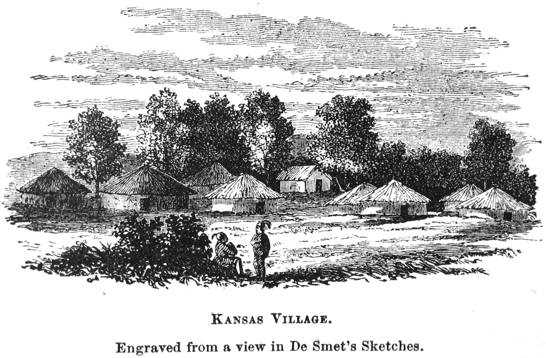 Kaw village, sketched by Pierre-Jean De Smet